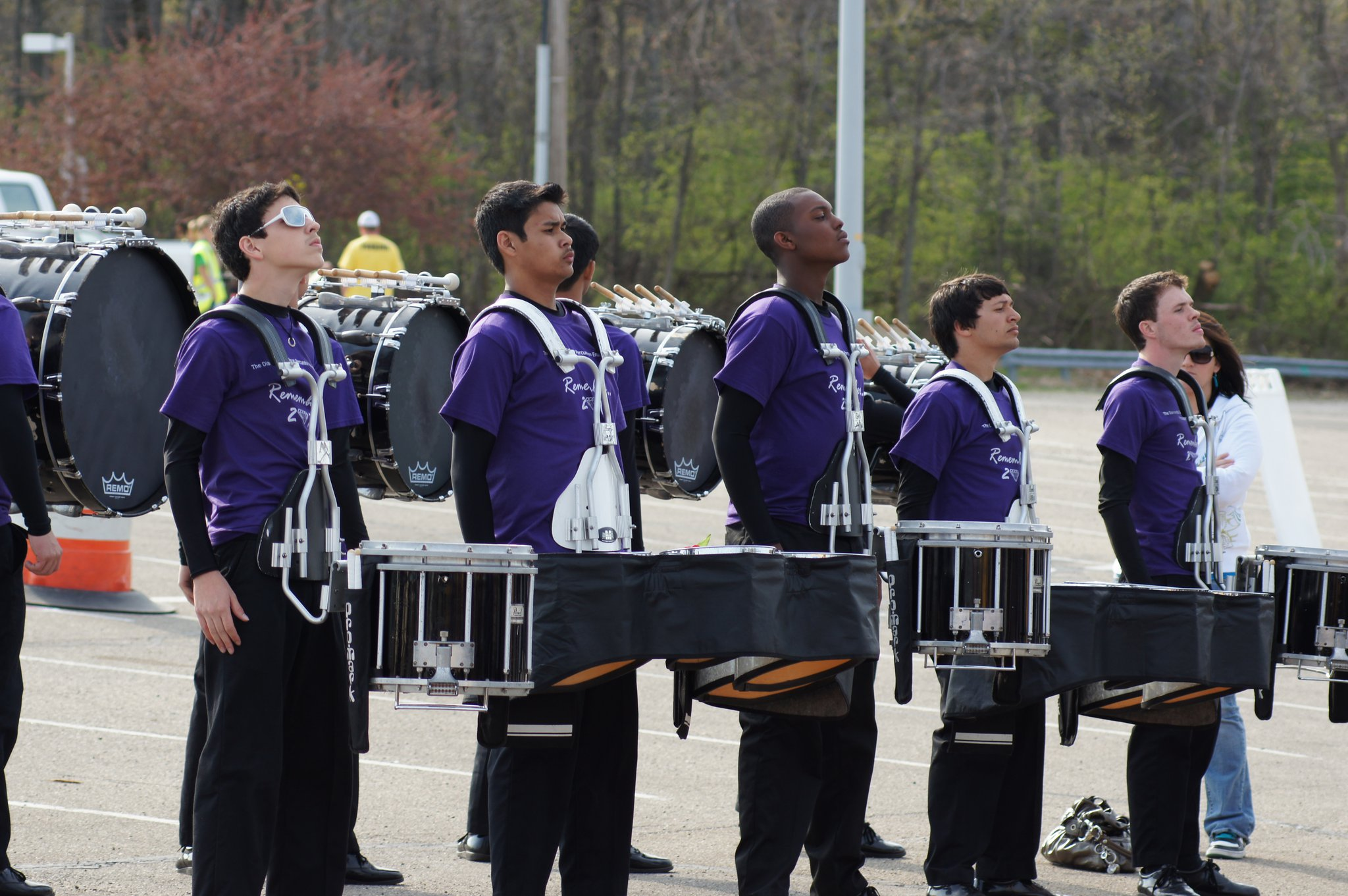 Escambia High School Indoor Drumline warming up